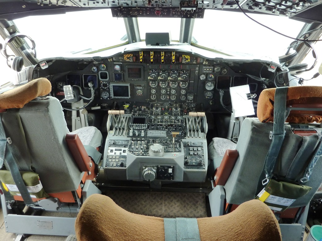 The cockpit has a combination of analog and digital instrumentation. The seat in the middle at the bottom of the frame is for the flight engineer.A primary mission of this aircraft--a hurricane hunter--is taking measurements in hurricanes to improve predictions and scientific understanding. But these photos were taken during the Southeast Nexus (SENEX) research study of air quality and climate in the Southeastern United States. The aircraft was the centerpiece of the study--filled with scientific instrumentation to analyze gases and small particles.These photos were taken in Smyrna, Tennessee.